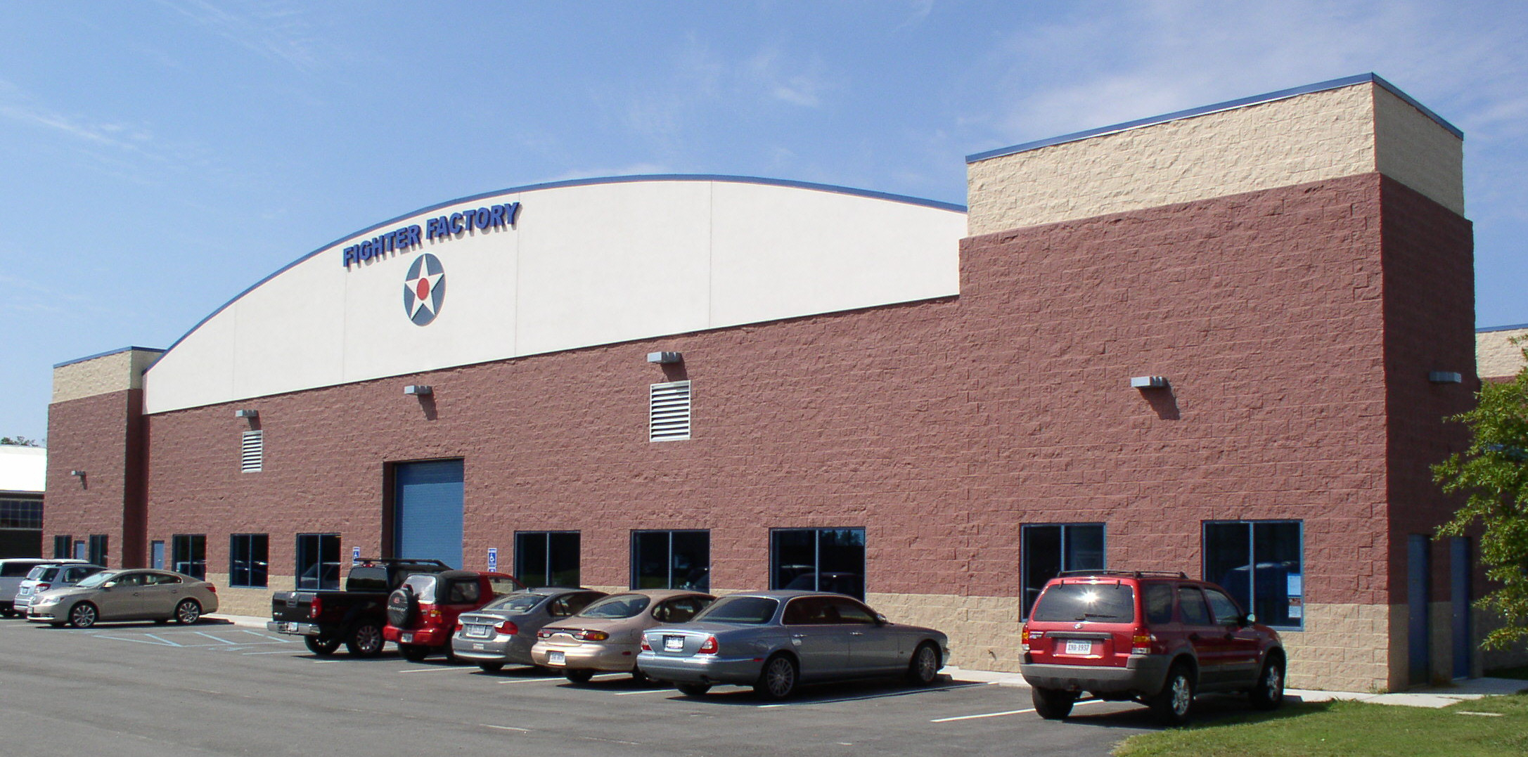 Maintenance hangar at the Military Aviation Museum